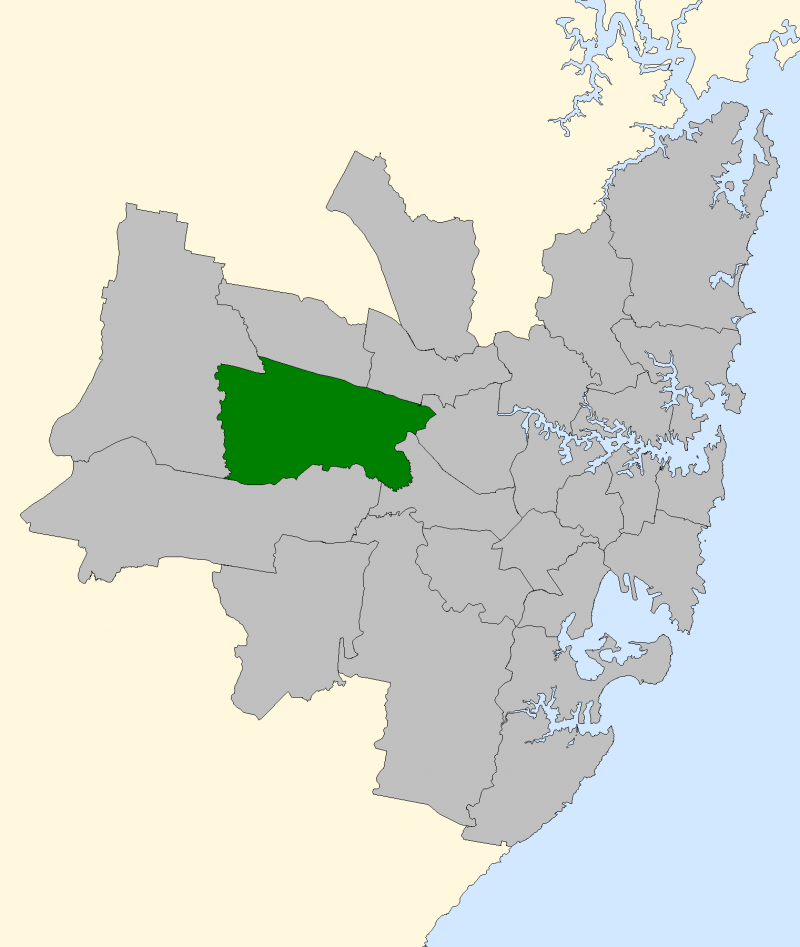 Division of Prospect 2007, with surrounding Sydney divisions, based on official AEC data